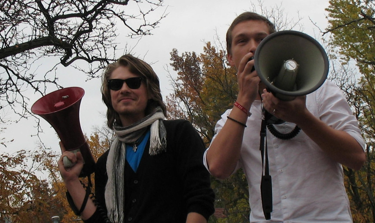 Taylor and Isaac Hanson on a charity walk in St. Louis, MO. They are addressing their fans and explaining about their connection with .